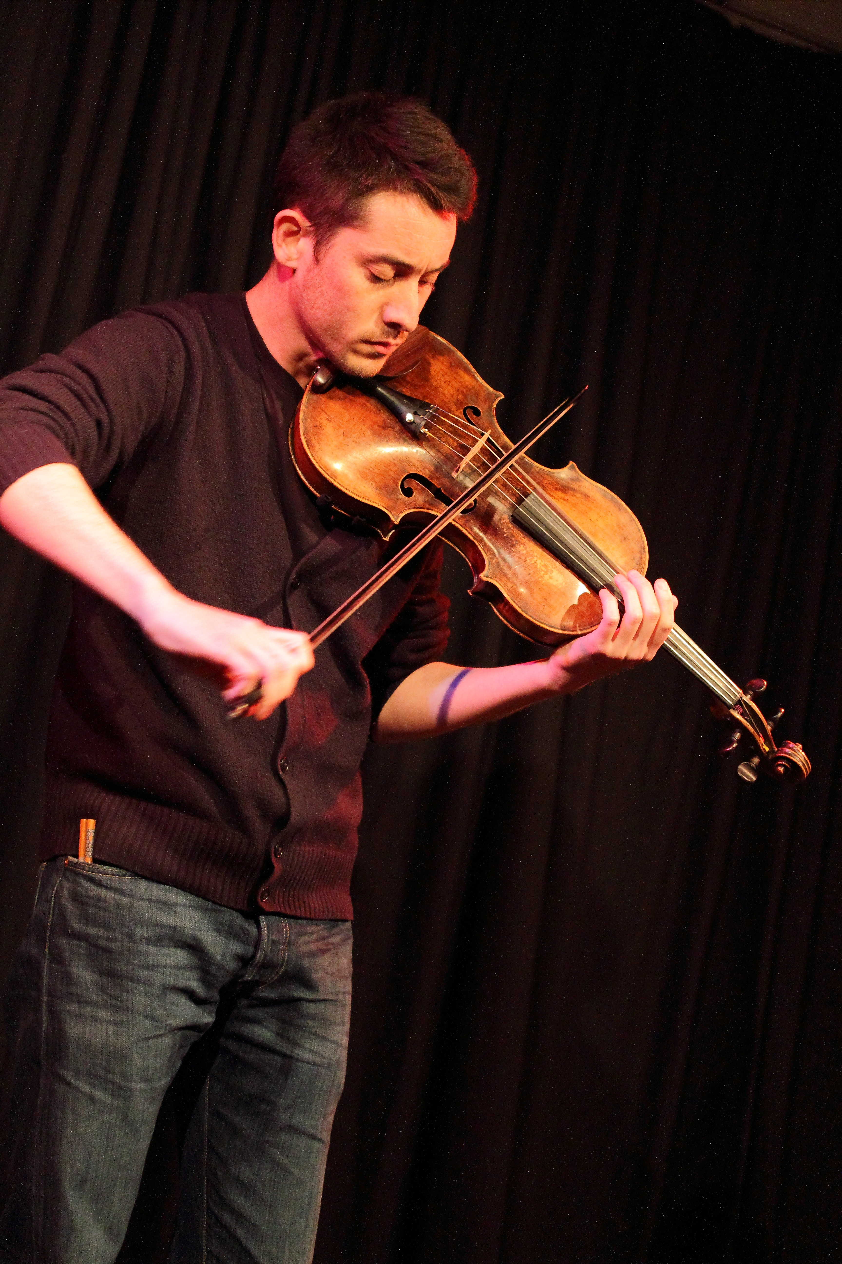 The french-japanese viola player Frantz Loriot with baloni at Club W71, Weikersheim.